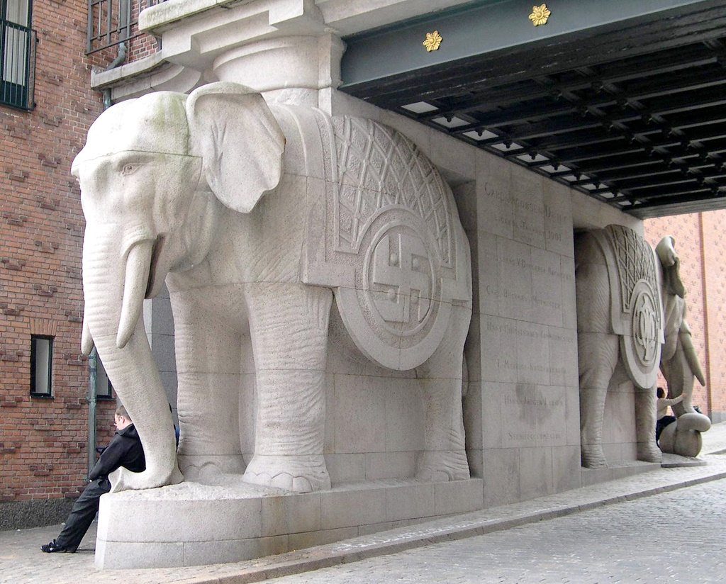 The Elephant Gate (entrance) at Carlsberg Brewery, Copenhagen. Architect: Vilhelm Dahlerup, 1901. Made out of granit from the island of Bornholm.